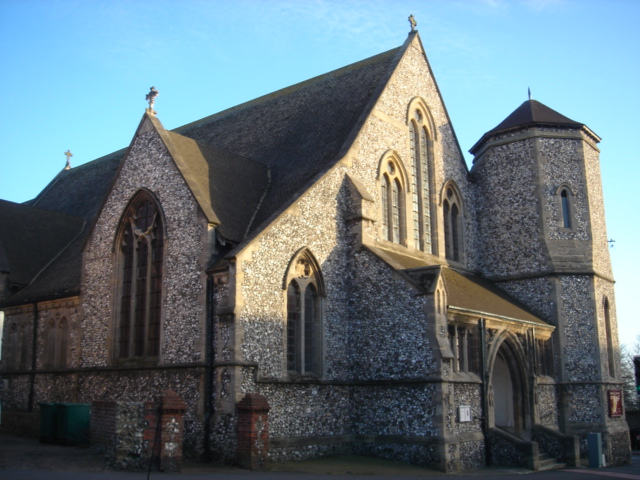 Exterior of St Luke's Church, corner of Queen's Park Road (foreground) and Queen's Park Terrace, Brighton, from the northwest.